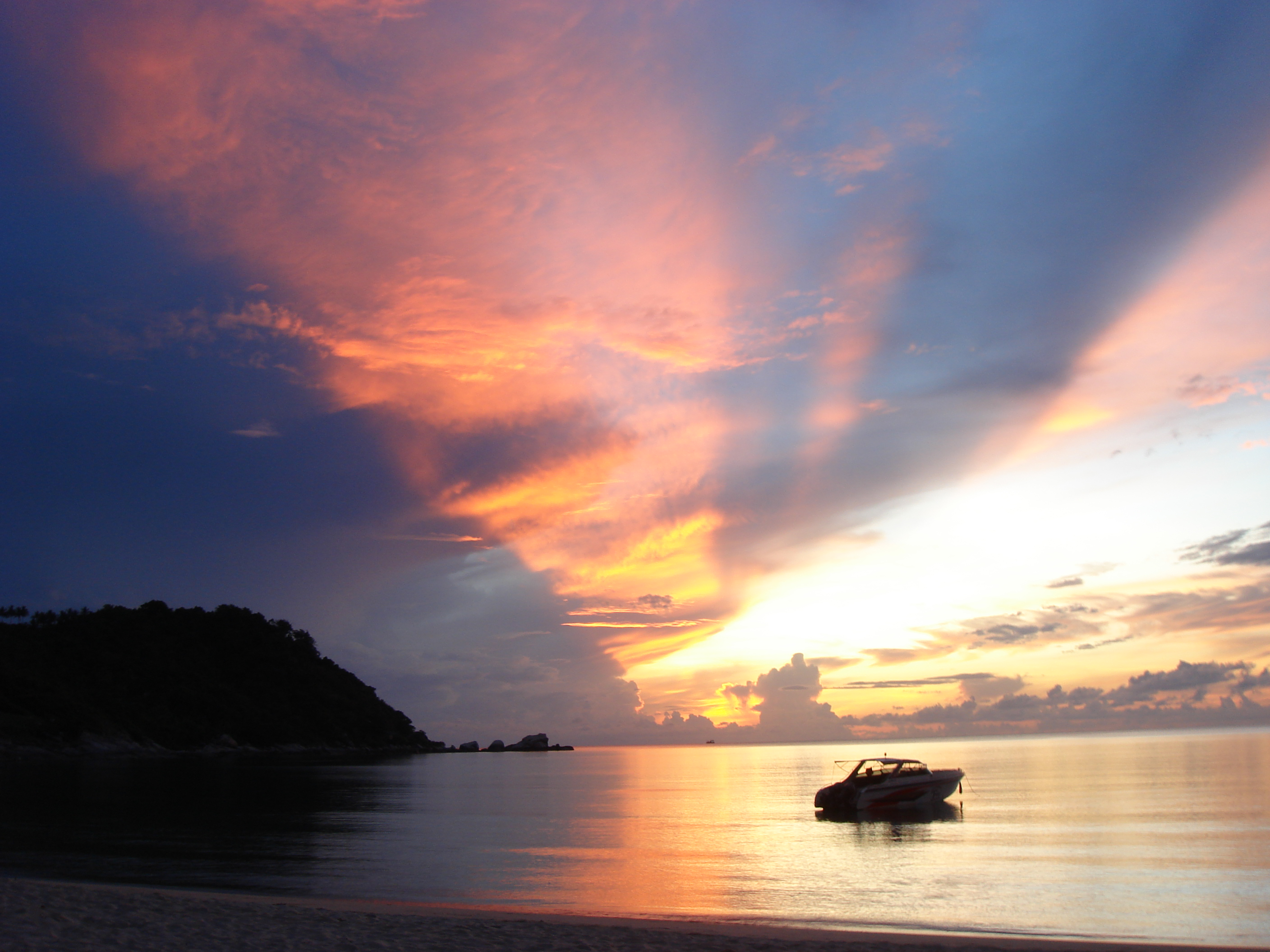 Author: Mark ForsterWhere?: Thong Nai Pan, Ko Pha Ngan, ThailandWhen?: May 2006 This place really is paradise. It's like being in a movie.